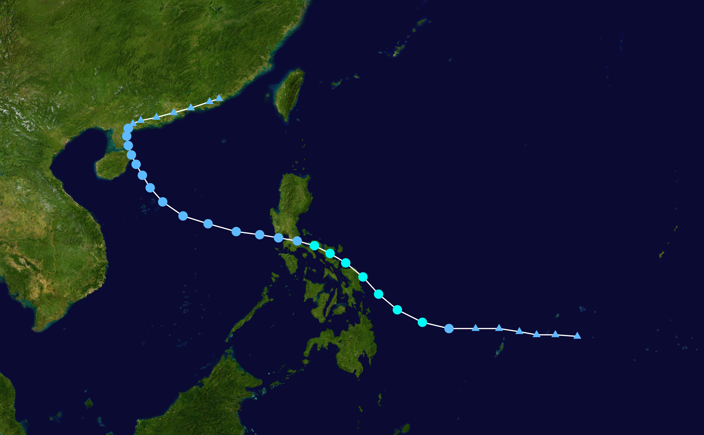 Track map of Tropical Storm Higos of the 2008 Pacific typhoon season. The points show the location of the storm at 6-hour intervals. The colour represents the storm's maximum sustained wind speeds as classified in the Saffir–Simpson scale (see below), and the shape of the data points represent the nature of the storm, according to the legend below. Saffir–Simpson scale Tropical depression≤38 mph≤62 km/h Category 3111–129 mph178–208 km/h Tropical storm39–73 mph63–118 km/h Category 4130–156 mph209–251 km/h Category 174–95 mph119–153 km/h Category 5≥157 mph≥252 km/h Category 296–110 mph154–177 km/h Unknown Storm type Tropical cyclone Subtropical cyclone Extratropical cyclone / Remnant low / Tropical disturbance / Monsoon depression